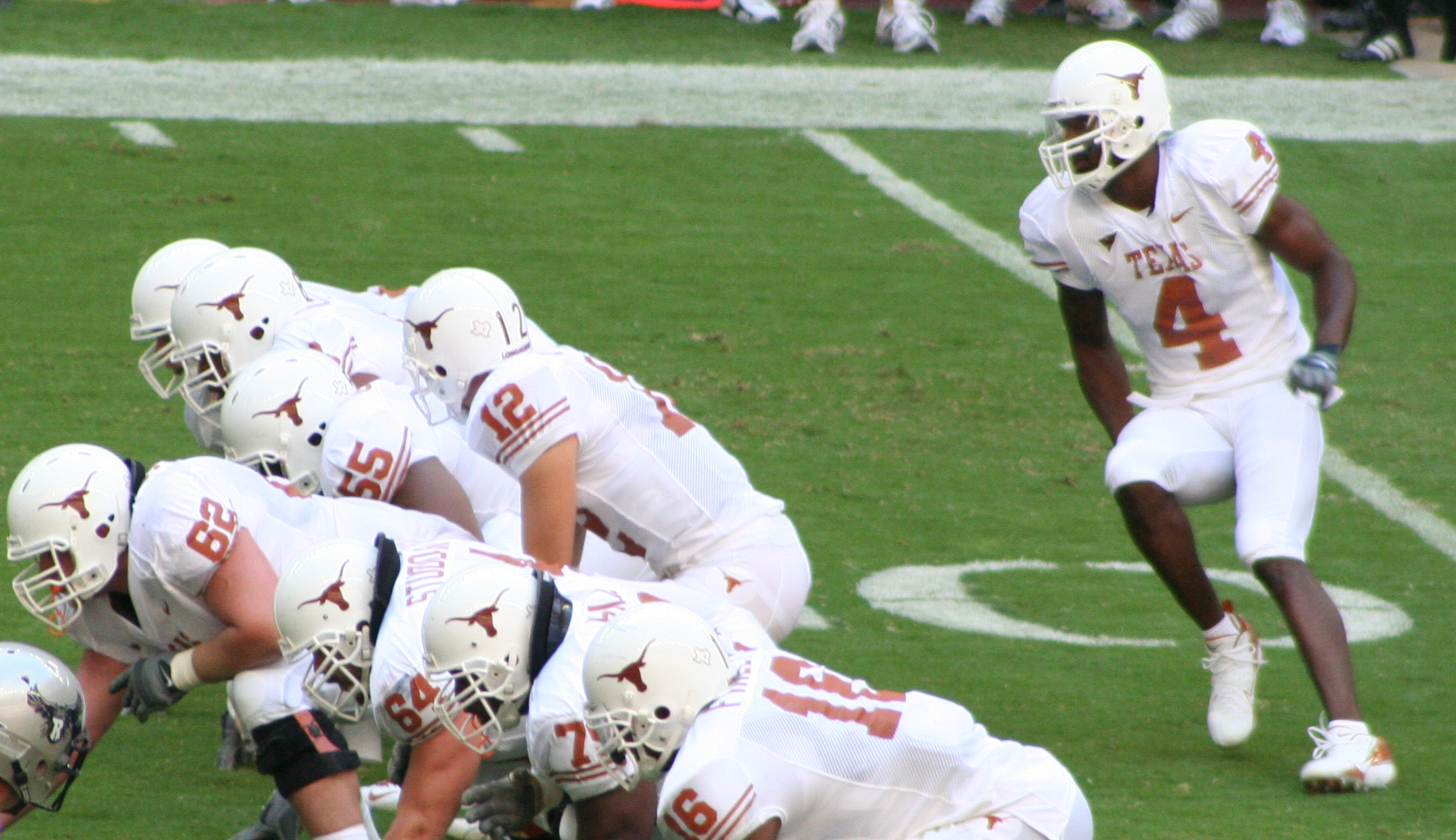 Limas Sweed of the 2006 Texas Longhorn football team in motion behind Colt McCoy in a game against Rice.